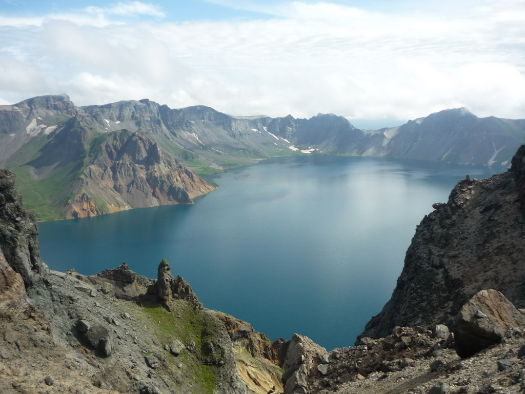 Changbai Tainchi Lake